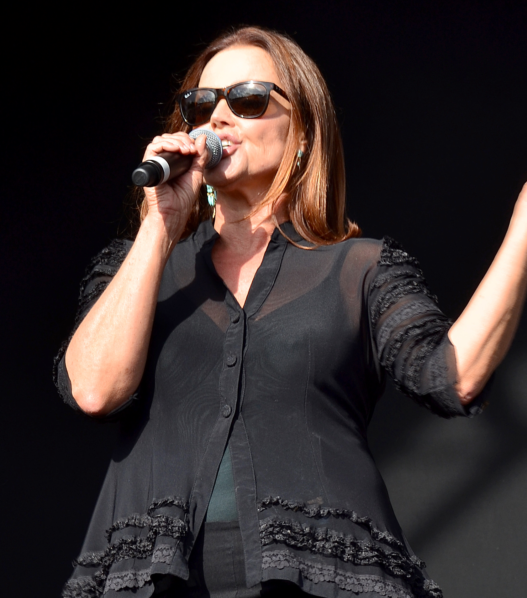 Let's Rock Bristol took place at The Ashton Court Estate, Bristol, 6-8 June 2014. It was attended by over 10,000 people. The festival included the following (mainly British) artists: Then Jerico, Brother Beyond, Bananarama, Tony Hadley, Belinda Carlisle, Alexander O'Neil, Go West, Boney M, Midge Ure, Heaven 17, The Christians, China Crisis, Doctor and The Medics, Sonia, Jaki Graham, Carol Decker of T'Pau, Level 42, Rick Astley, Kim Wilde, ABC, Nik Kershaw, Matt Bianco, Imagination, The Blow Monkeys, Toyah and Johnny Hates Jazz.